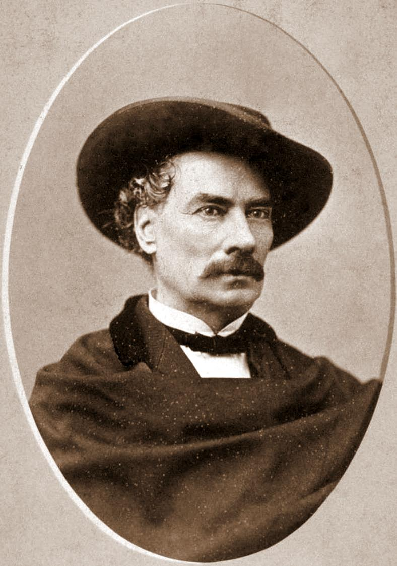 Cremony, John Carey